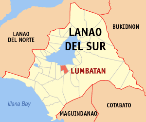 Map of the Lanao del Sur showing the location of Lumbatan